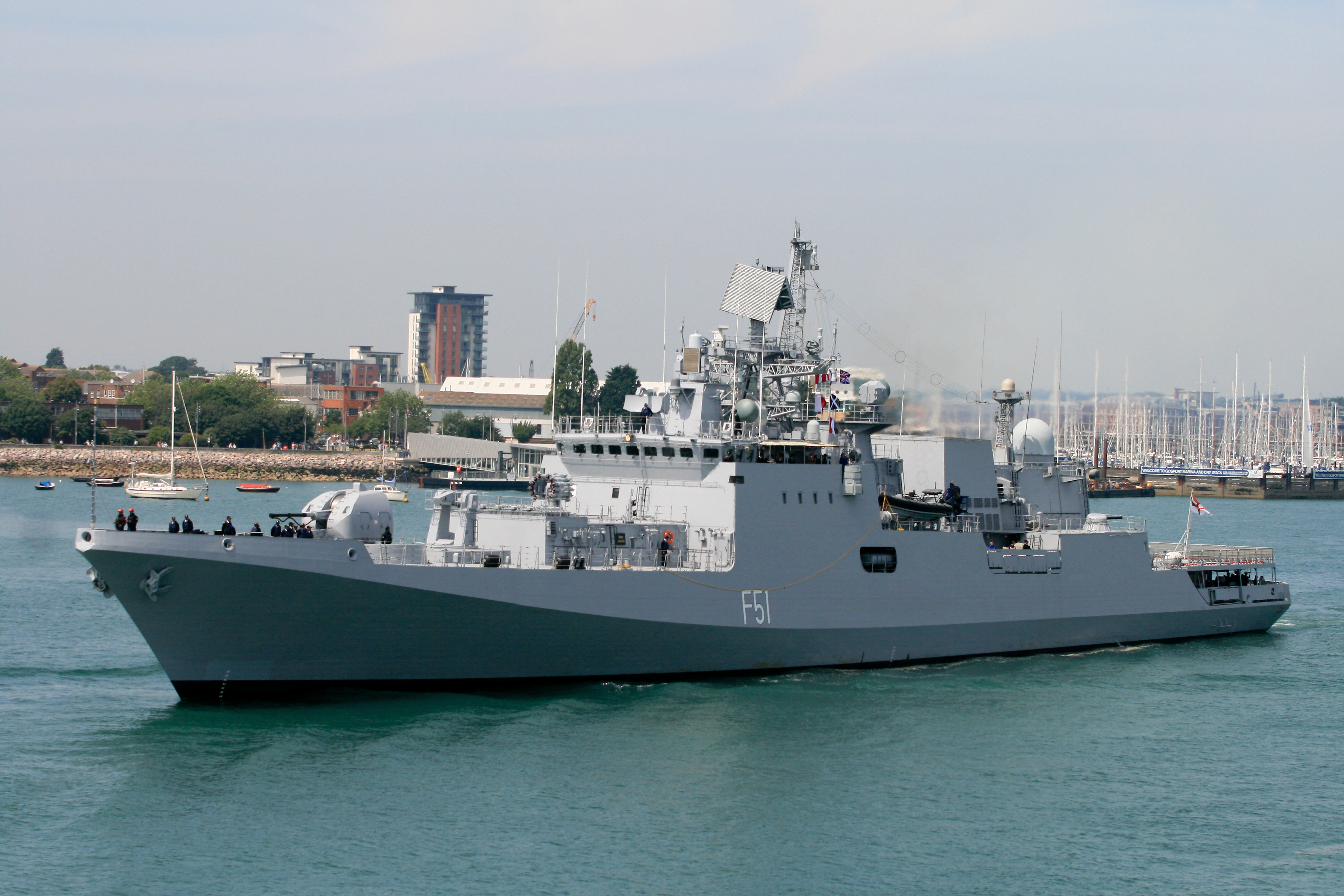 Indian Navy frigate INS Trikand (F51) of the Talwar class (modified Russian Krivak II class) departing from Portsmouth Naval Base, UK, on 16 July 2013, on an Indian-bound delivery voyage from the Baltiysky Zavod shipyard in St Petersburg. Ahead of the bridge are seen the 8-cell VLS (Vertical Launch System) for BrahMos and 3M-54 Klub anti-ship missiles, and the 12-barrelled RBU-6000 Smerch-2 launcher for anti-submarine rockets. Atop the mast are the distinctive canted twin aerials for the Fregat M2EM air search radar. Above the bridge is a Garpun-B fire control radar for the BrahMos or Klub missiles. On the bridge wings facing forward are two MR-90 Orekh target illumination radars for the 9M317 (SA-N-12) SAMs. Two more are located aft of the funnel facing aft. Wikipedia editors are reminded that the copyright remains with the photographer, and that the terms of the Creative Commons (CC), Attribution (BY), Share Alike (SA) CC-BY-SA-3.0 that allow editors to reuse this image apply to Wikipedia editors also, as they do to other re-users of this image. Breaches of the licence terms are not only unlawful, but are also antisocial, in that breaches discourage photographers from making their images freely available to everyone without payment. Wikipedia re-users are also reminded of the license terms that derivatives of this image should not imply that the adaptation is endorsed or approved by the author or copyright holder. Neither should derivatives be presented as the creation of the author or copyright holder, while clearly stating that the adaptation is a derivative of the original. Attribution online should be in this format Brian Burnell. On the printed page, a simpler form is acceptable - example: "Image: Brian Burnell".